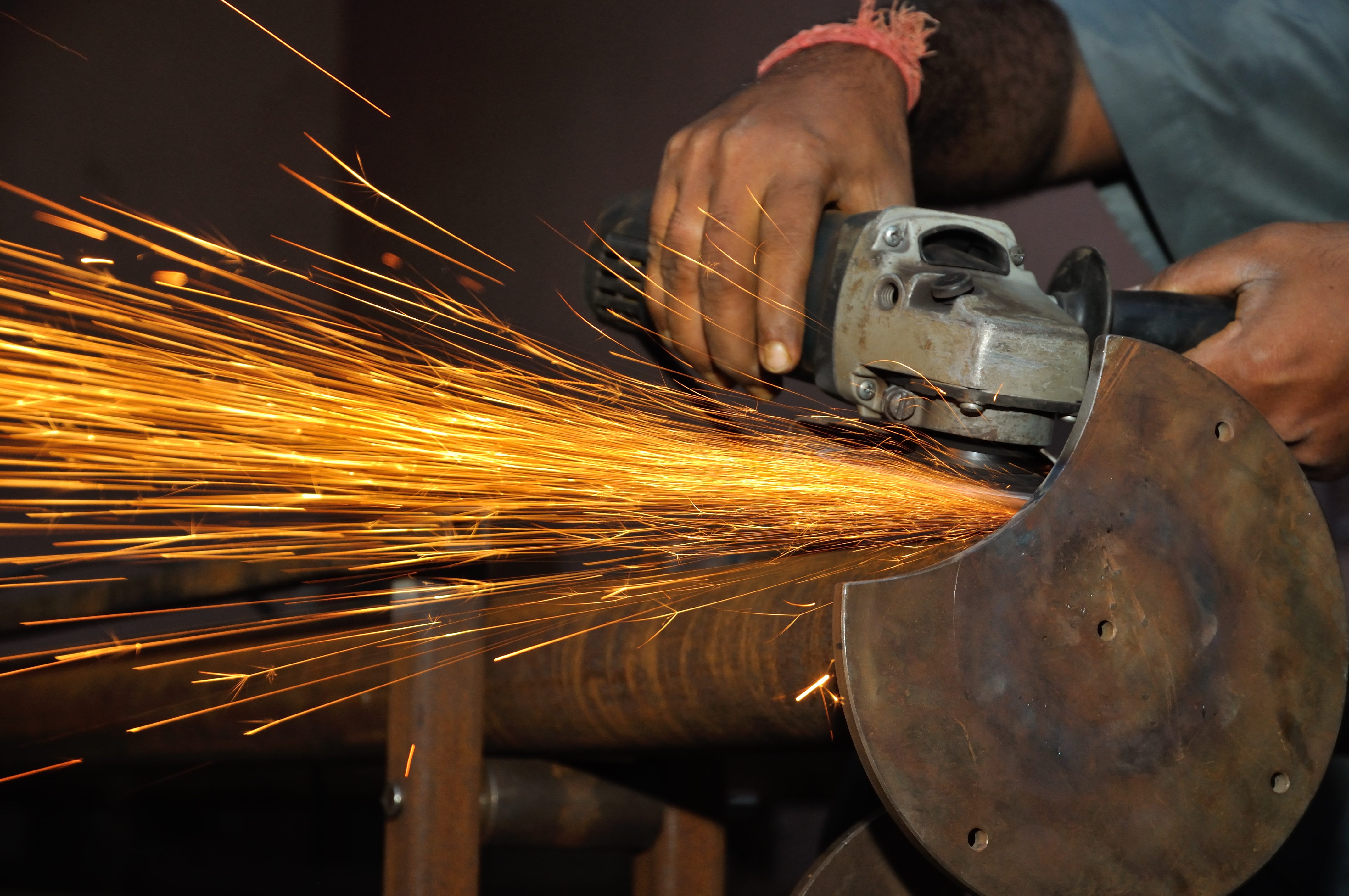 Photographed in Kolkata.